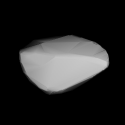 3D convex shape model of 1437 Diomedes, computed using light curve inversion techniques. J. Hanuš, J. Ďurech, M. Brož, B. D. Warner (June 2011). "A study of asteroid pole-latitude distribution based on an extended set of shape models derived by the lightcurve inversion method". Astronomy and Astrophysics 530: A134. ISSN 0004-6361. arXiv